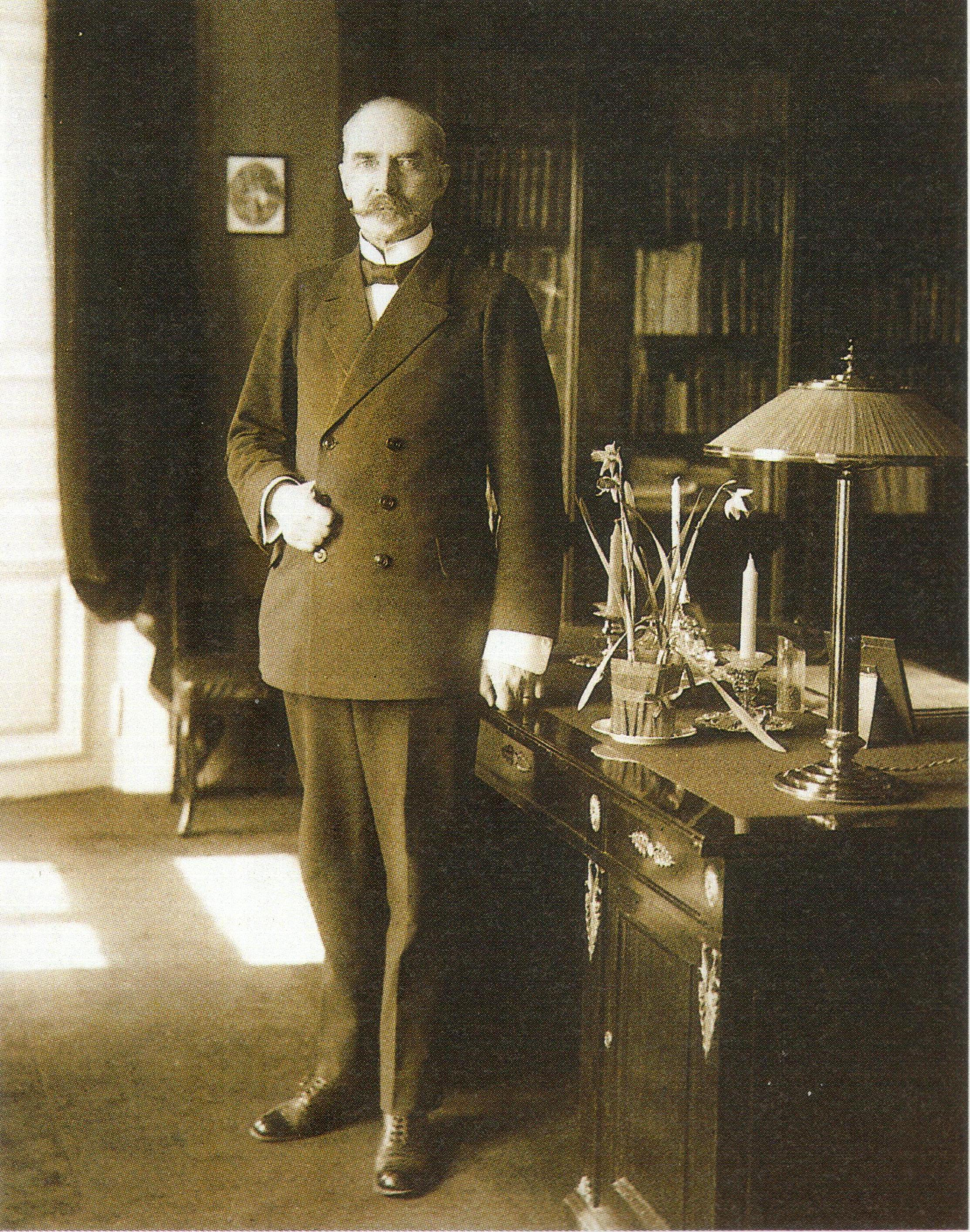 The first President of Finland, Kaarlo Juho Ståhlberg in his office.